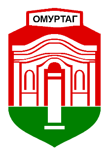 Emblem of Omurtag, Bulgaria